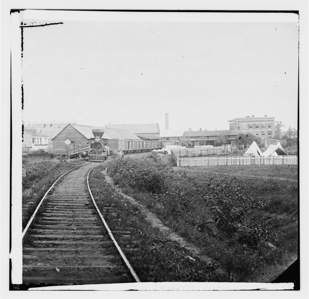 Freight train on Orange and Alexandria Railroad. Photograph taken in Culpeper, Virginia in mid 1862.